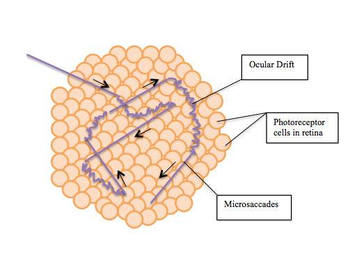 This image was modified from the figure of 'The Perception of Stabilized Retinal Images' from the Neuroscience Fifth Edition Textbook (Purves et al.). In the figure, fixational eye movement is displayed by the purple lines. The direction of the movement is shown by the arrows. Microsaccades are indicated by the straight lines. Ocular drift is indicated by the zig zag lines. These lines demonstrate how the two types of eye movement change the retinal stimulus the entire time the eye is fixated.